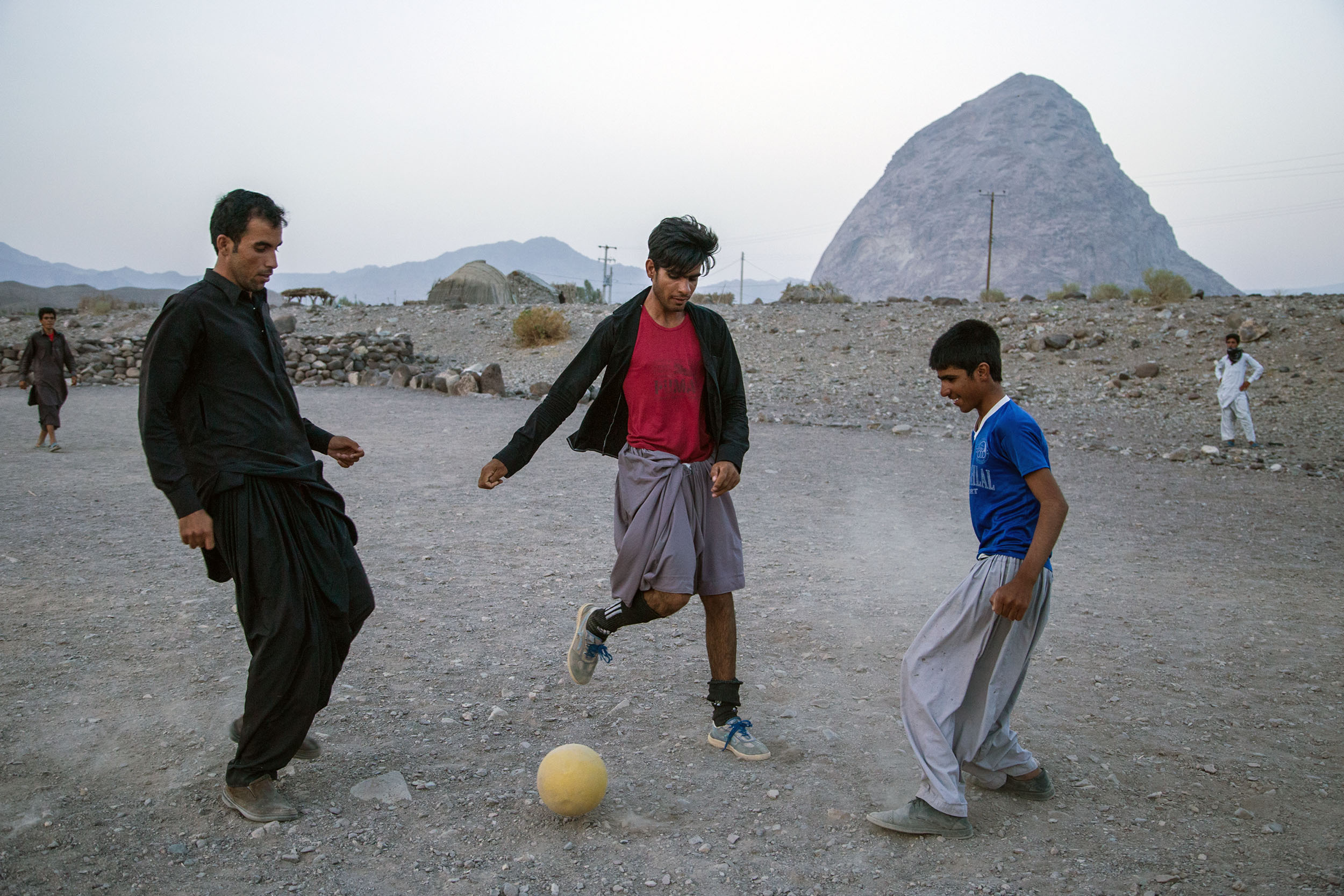 The terms street football and street soccer (in United States) encompass a number of informal varieties of association football.